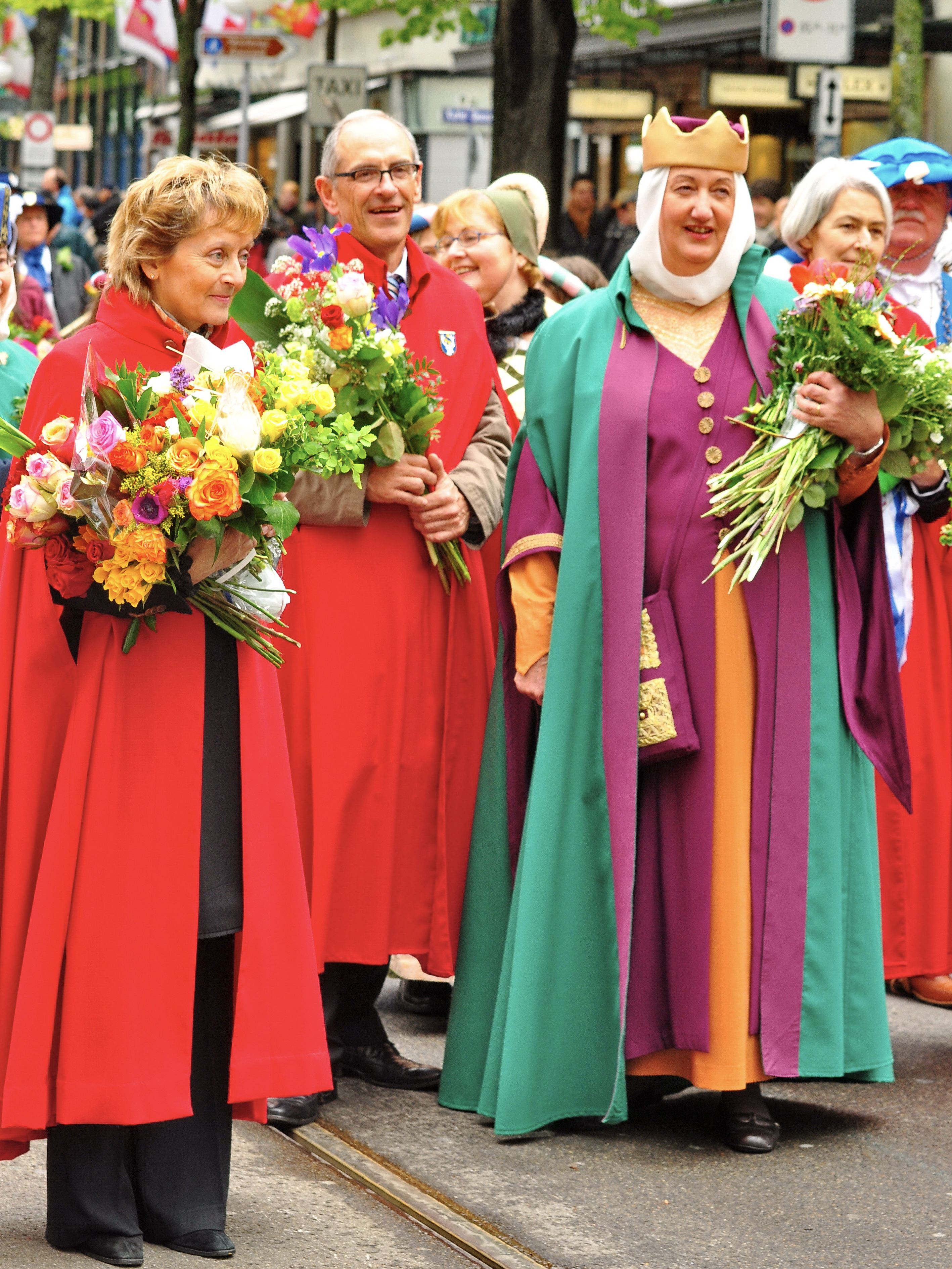 Ladies of the honorable Gesellschaft zu Fraumünster (Fraumünster society respectively guild) and Eveline Widmer-Schlumpf, President of the Swiss Confederation, being (unwanted) 'guests' at the parade of the Zünfte (guilds), Bahnhofstrasse in Zürich (Switzerland) on Sechseläuten-Montag, April 16, 2012.